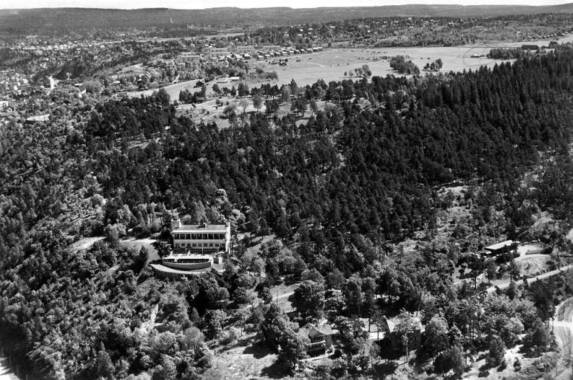 Ekebergrestauranten with surrounding wood, 1952. In the wood is Ekebergparken, a sculpture park, established in 2013.